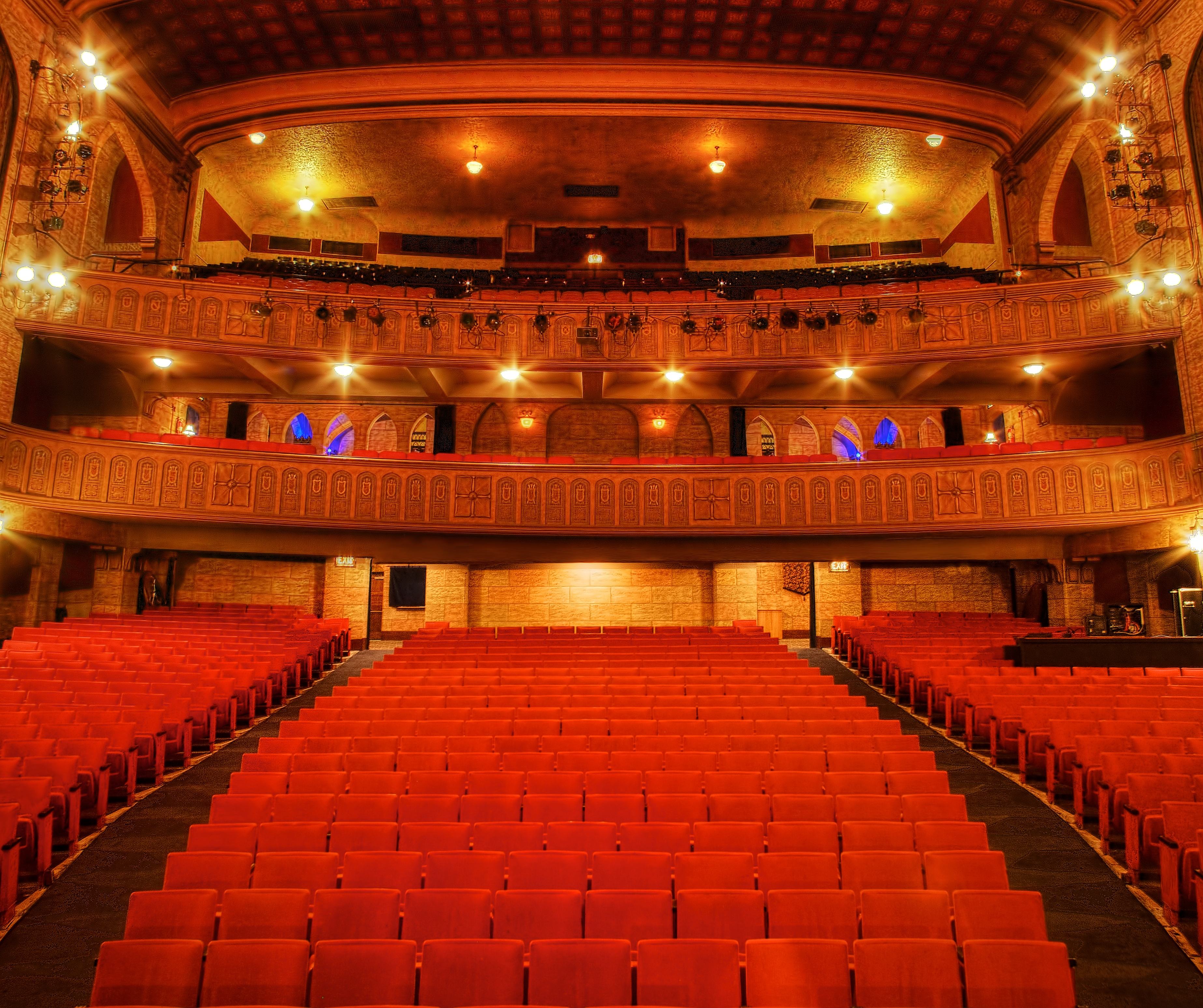 I've taken quite a number of photos from the stage of the Elsinore toward the audience seating. This particular shot was taken during a second round of photos to show the theatre with all draperies pushed open to show the lobby area. This shot was taken dead center and consists of a panorama of two HDR photos. The lower section used 5-exposures and the upper section used 7-exposures. Total: 12 exposures. I'm finding the more exposures the less post processing I need to do. Software: Photoshop Elements, Photomatix, Nik Viveza, Topaz Detail, Topaz DeNoise 5